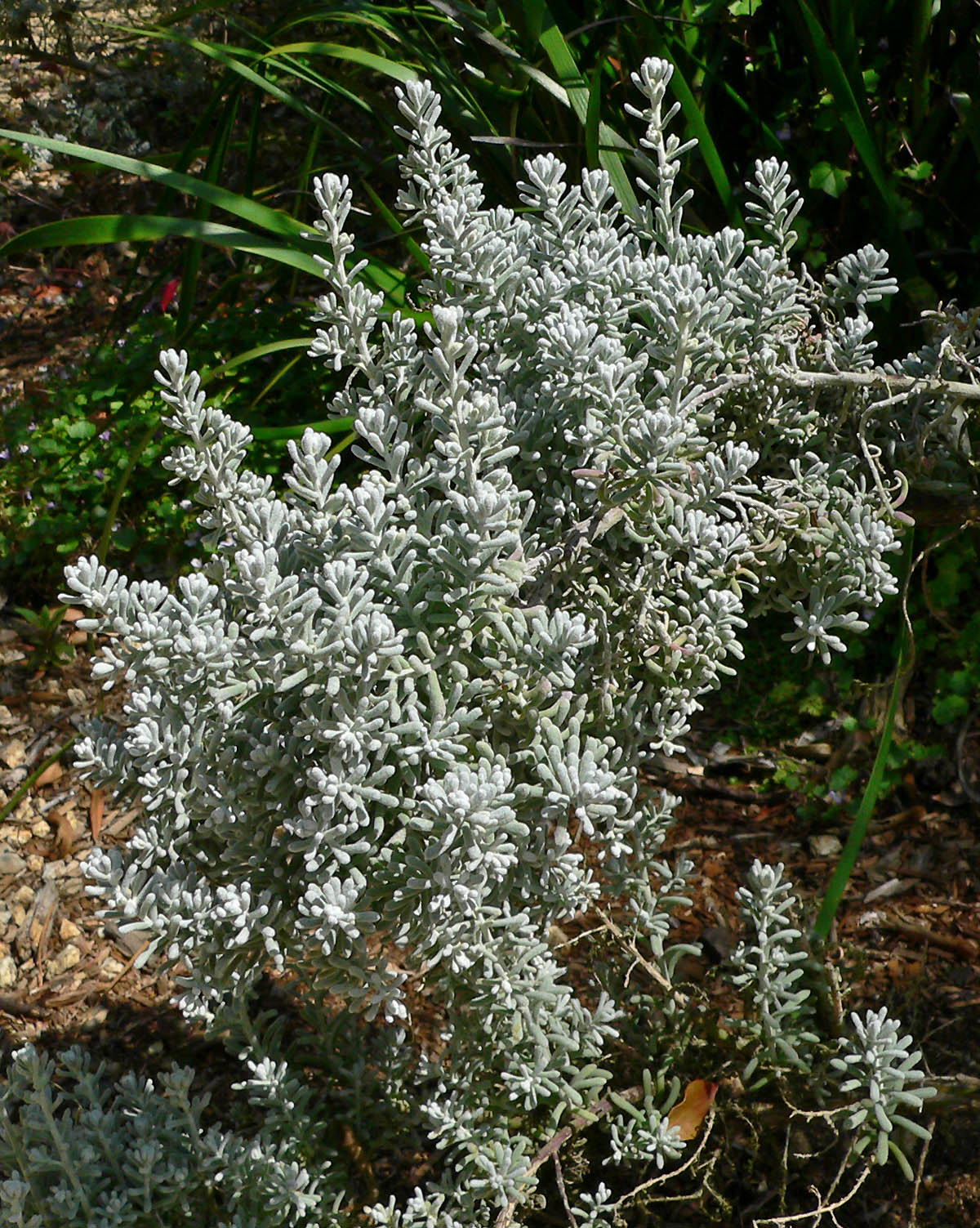 Photo of Maireana sedifolia at the San Francisco Botanical Garden